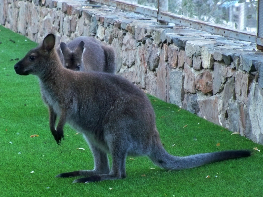 red-necked wallabies or Bennett's wallabies (Macropus rufogriseus), in Parque del Oeste, Málaga, Spain.